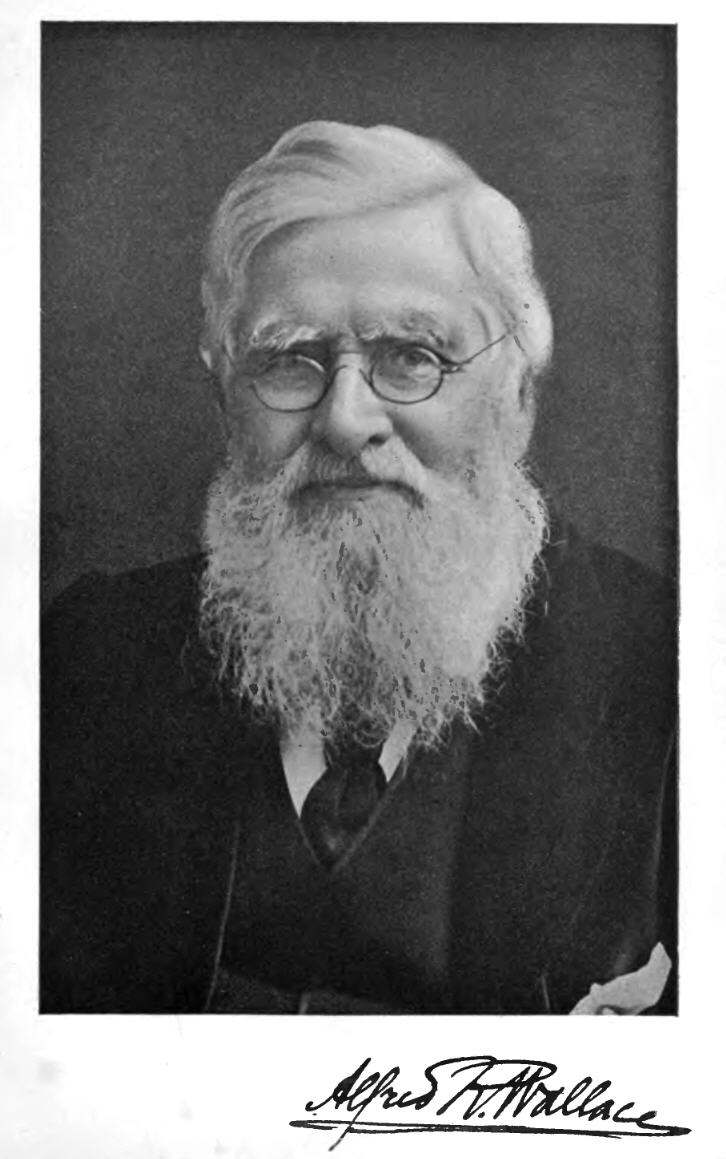 Alfred Russel Wallace